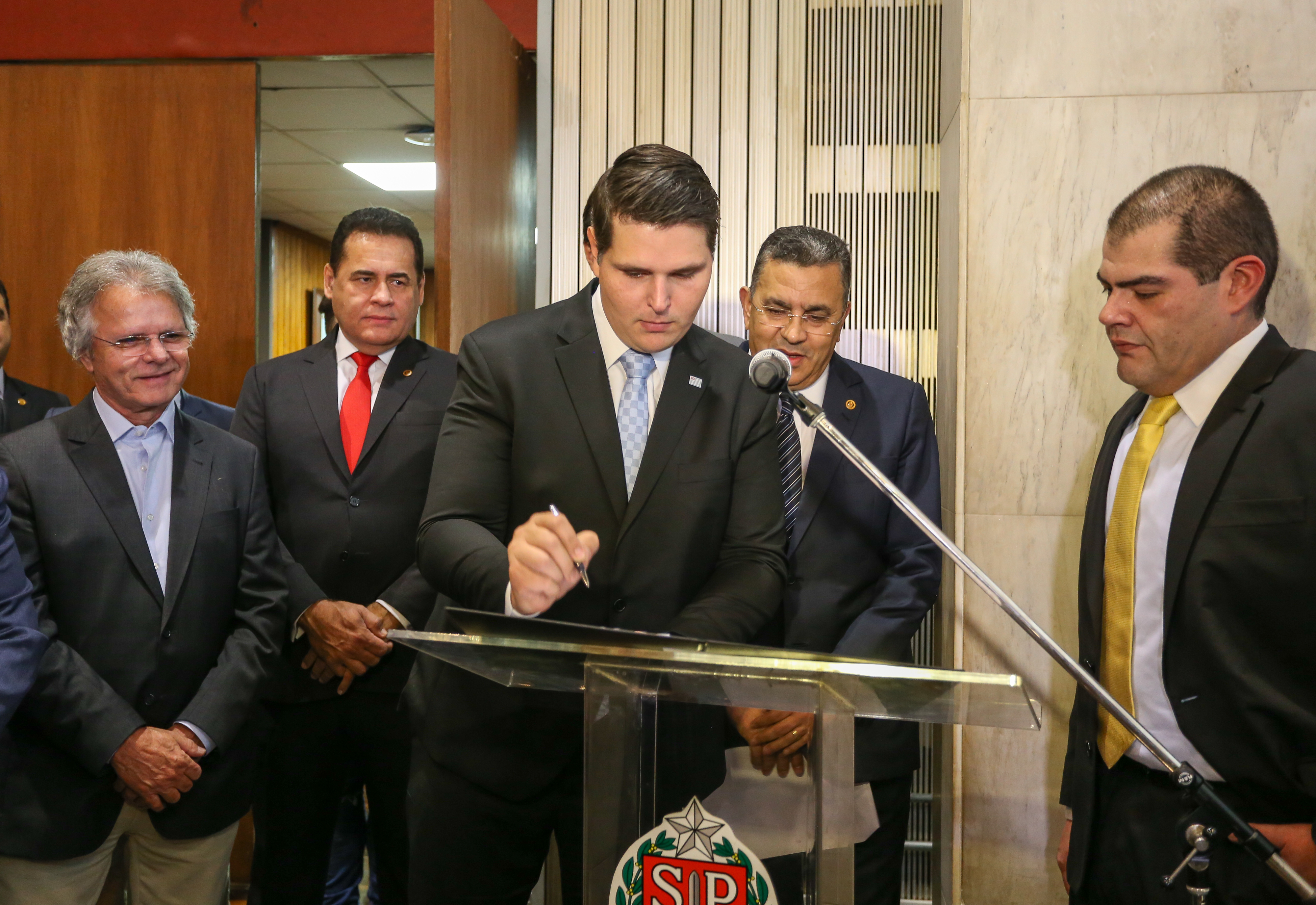 State Deputy Cauê Macris takes office as Acting Governor of the State of São Paulo at the Alesp. Local: São Paulo-SP. Date: 09/15/2019. Photo: Government of the State of São Paulo